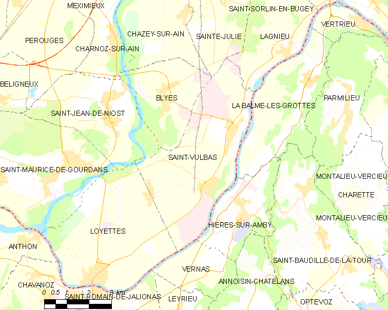 Map of French commune: Saint-Vulbas Map commune FR insee code 01390.png